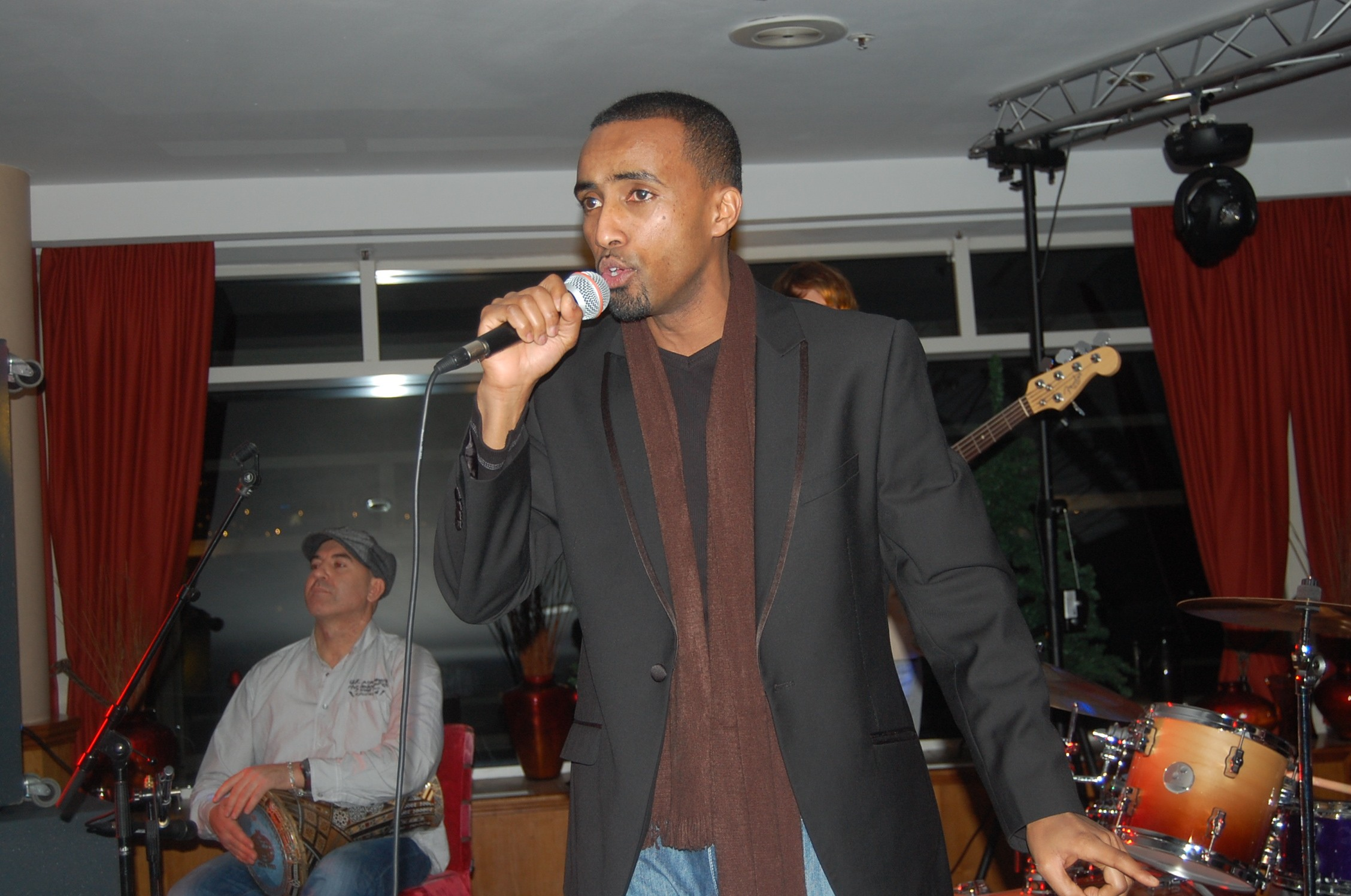 Somali singer Aar Maanta performs with his band at Pier Scheveningen Strandweg, Den Haag Netherlands.